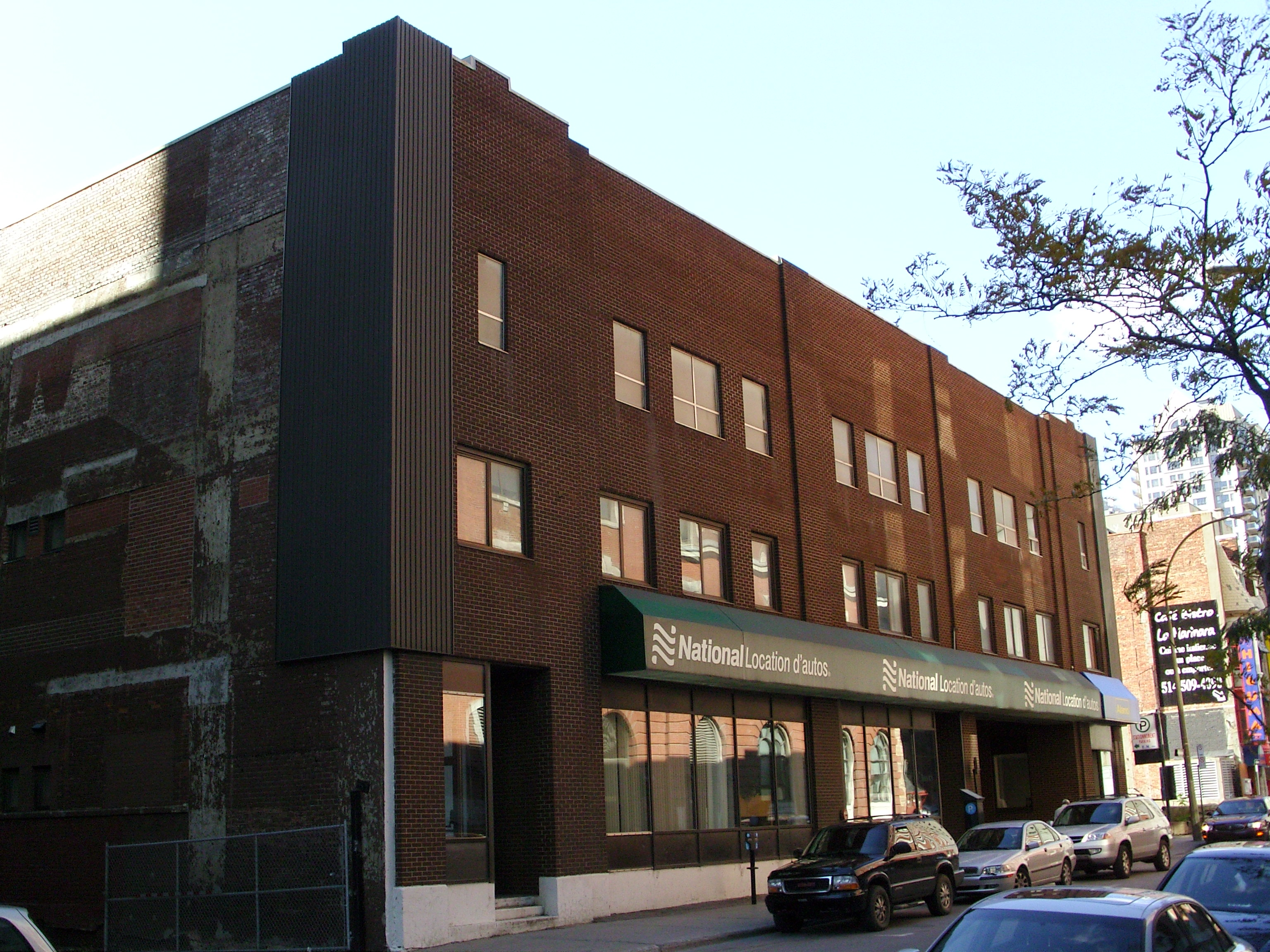 Victoria Skating Rink location, Montreal, from Stanley, today